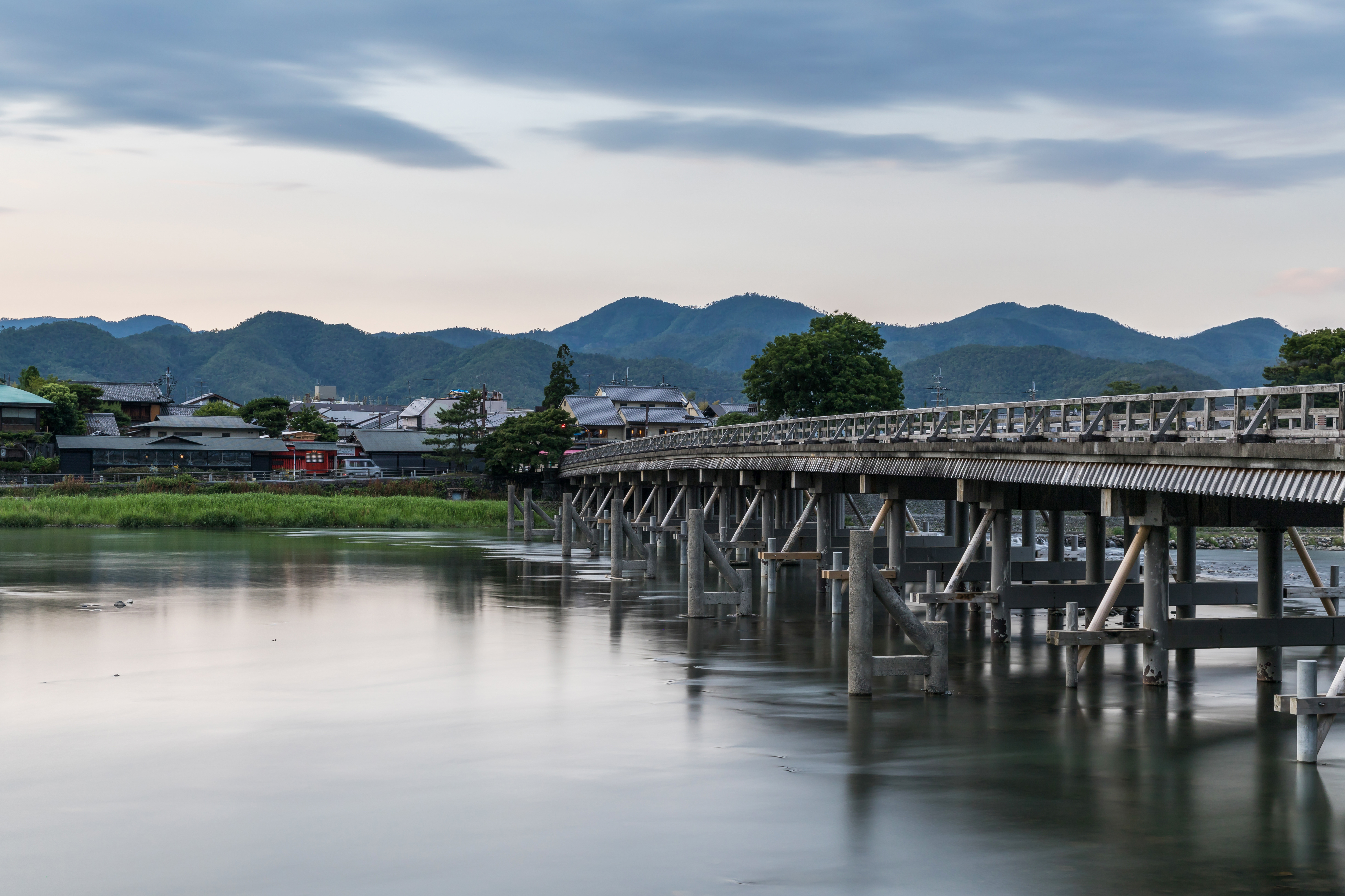 Togetsu-kyo bridge over the Katsura River with the wooded mountains of Ukyo Ward, at dusk, Arashiyama, Kyoto, Japan. Long-exposure photograph (30 seconds).